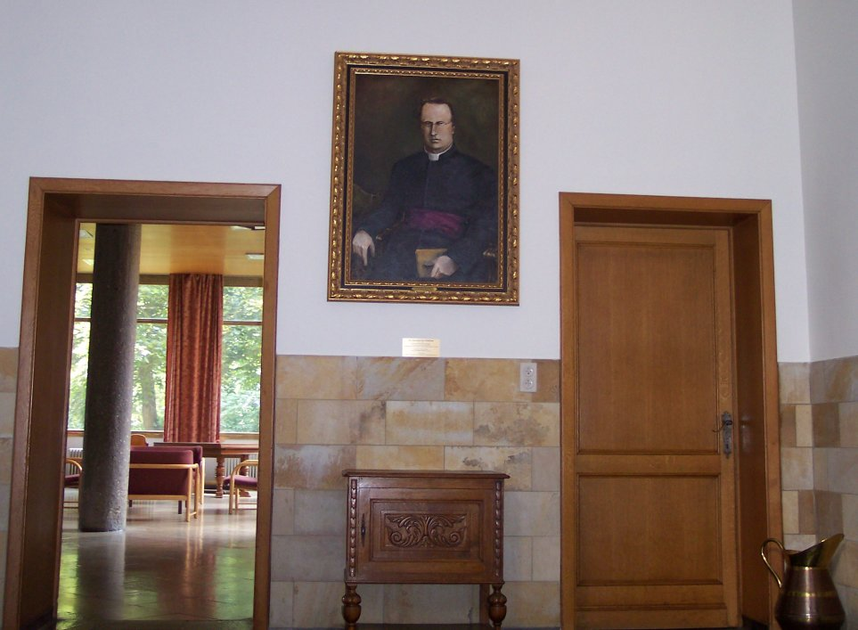 Foyer of American College of Louvain